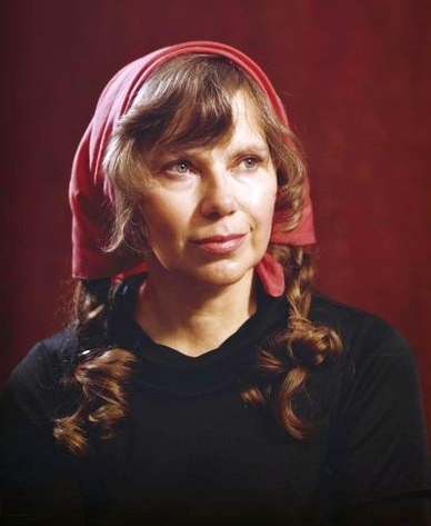 Photograph of the Finnish writer Anja Vammelvuo (1921–1988).